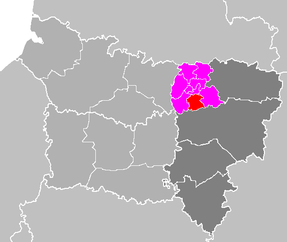 Maps of arrondissements and cantons of France